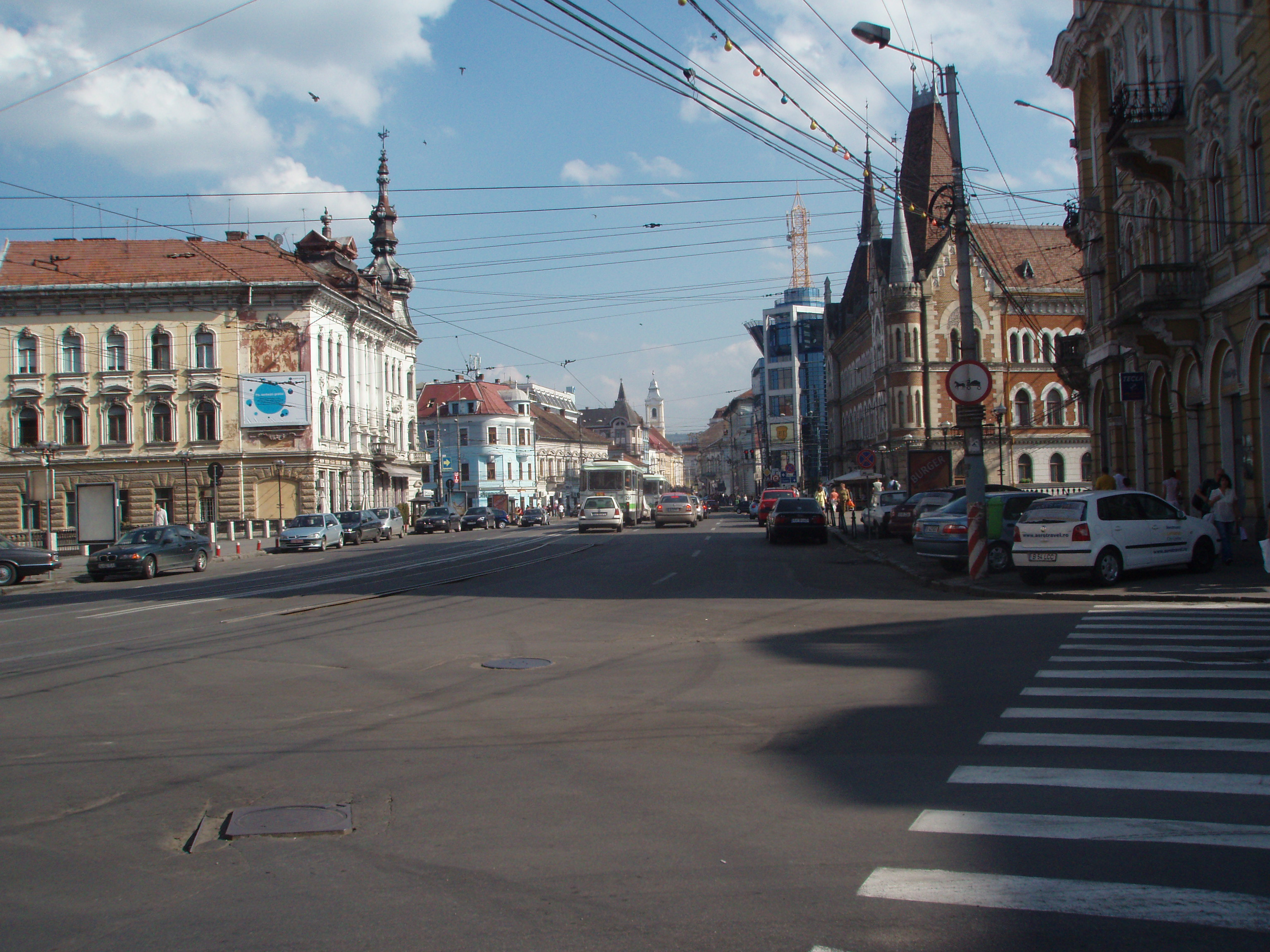 Cluj is the second biggest city in Romania and the biggest of Transylvania.